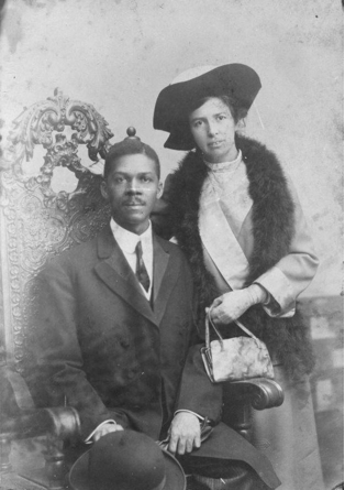 A portrait of Louis G. Gregory and his wife Louisa Mathew Gregory, the first inter-racial marriage in the Baha'i Community in the United States